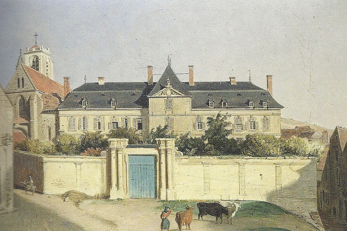 château de Saint-Brice at Saint-Bris-le-Vineux in the Yonne, France. Anonymous paint, 19th century.